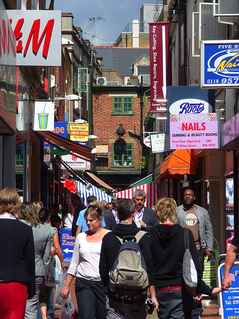 Union Street in Reading, Berkshire, England. Colloquially known as Smelly Alley, this narrow pedestrianised street links Broad Street and Friar Street. It is home to mostly small, independent retailers. The familiar name is a reference to the market traders selling meat, fish, fruit and vegetables. For more information see the Wikipedia articles Reading, Berkshire.